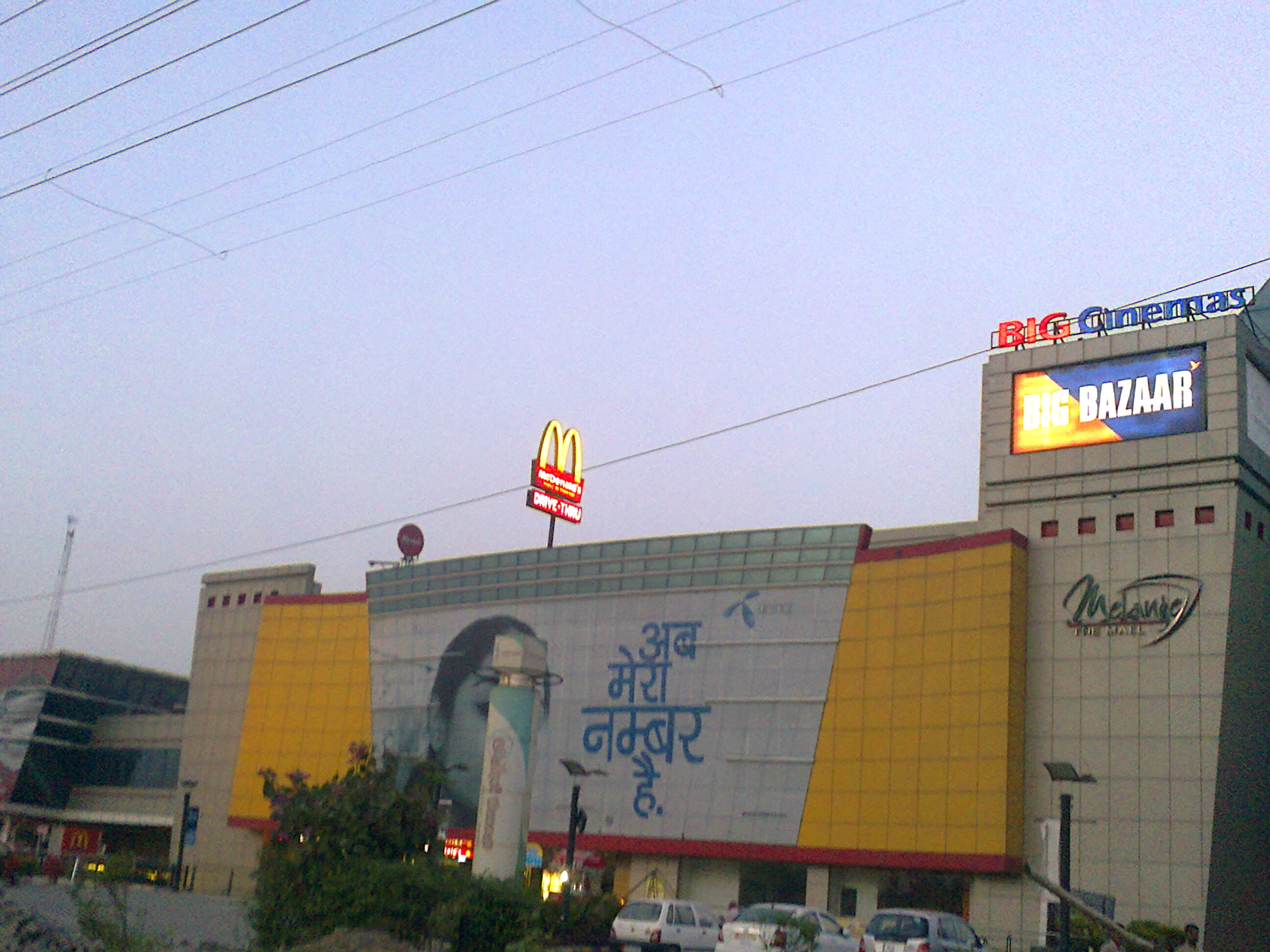 An image of the exterior of Melange mall and multiplex in Pallavpuram area of Meerut, Uttar Pradesh, India.